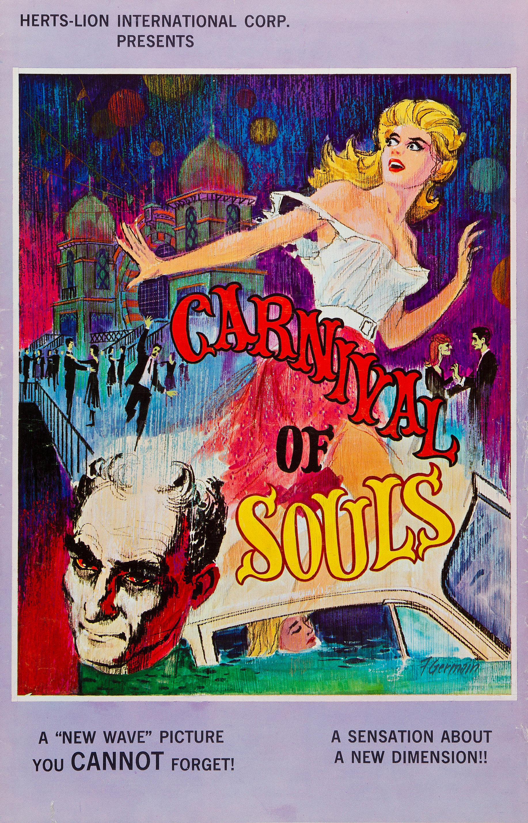 Cover of the 4-page pressbook for the 1962 horror film Carnival of Souls.